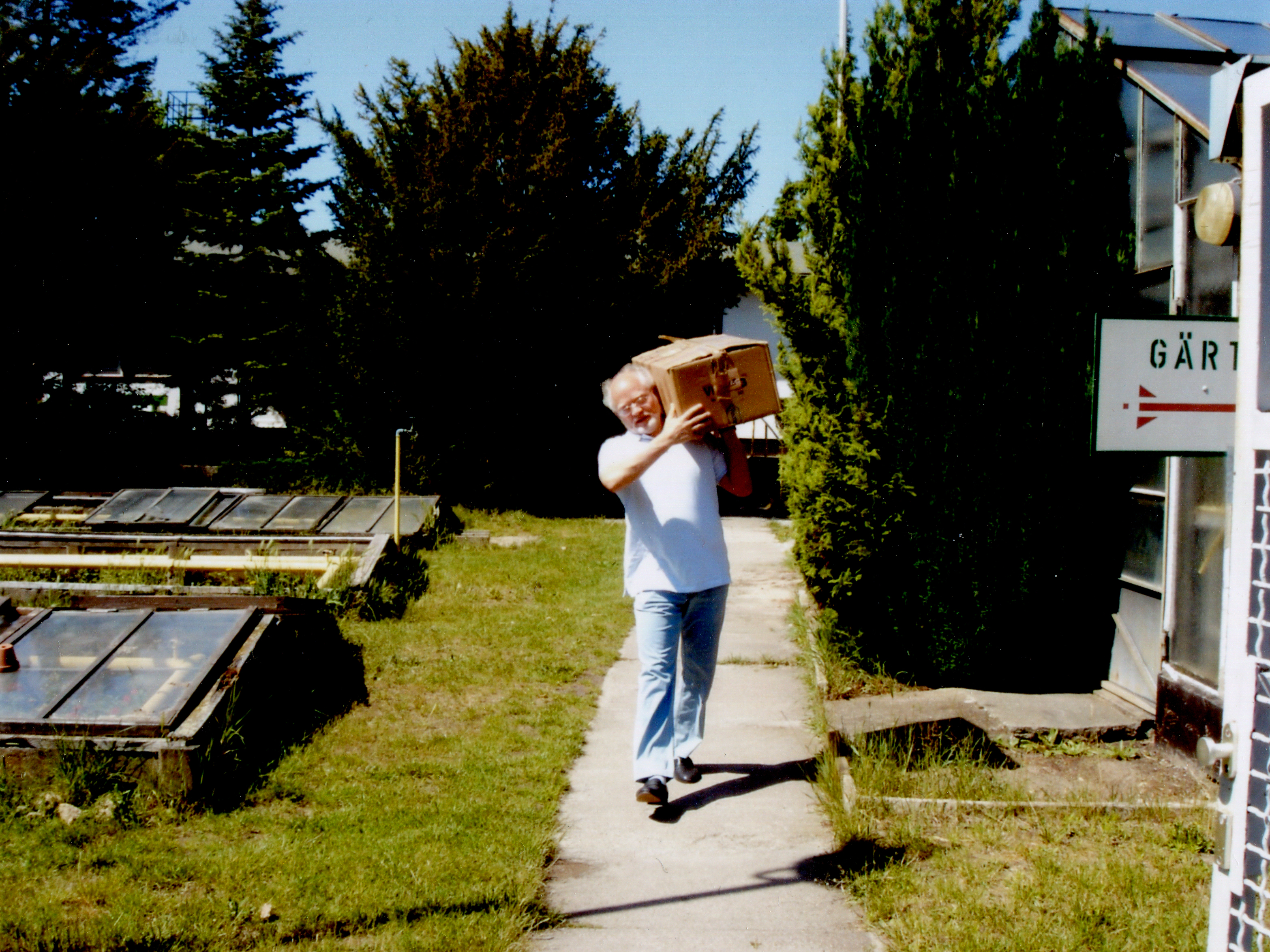 Thomas Wüppesahl 2007 in JVA Düppel